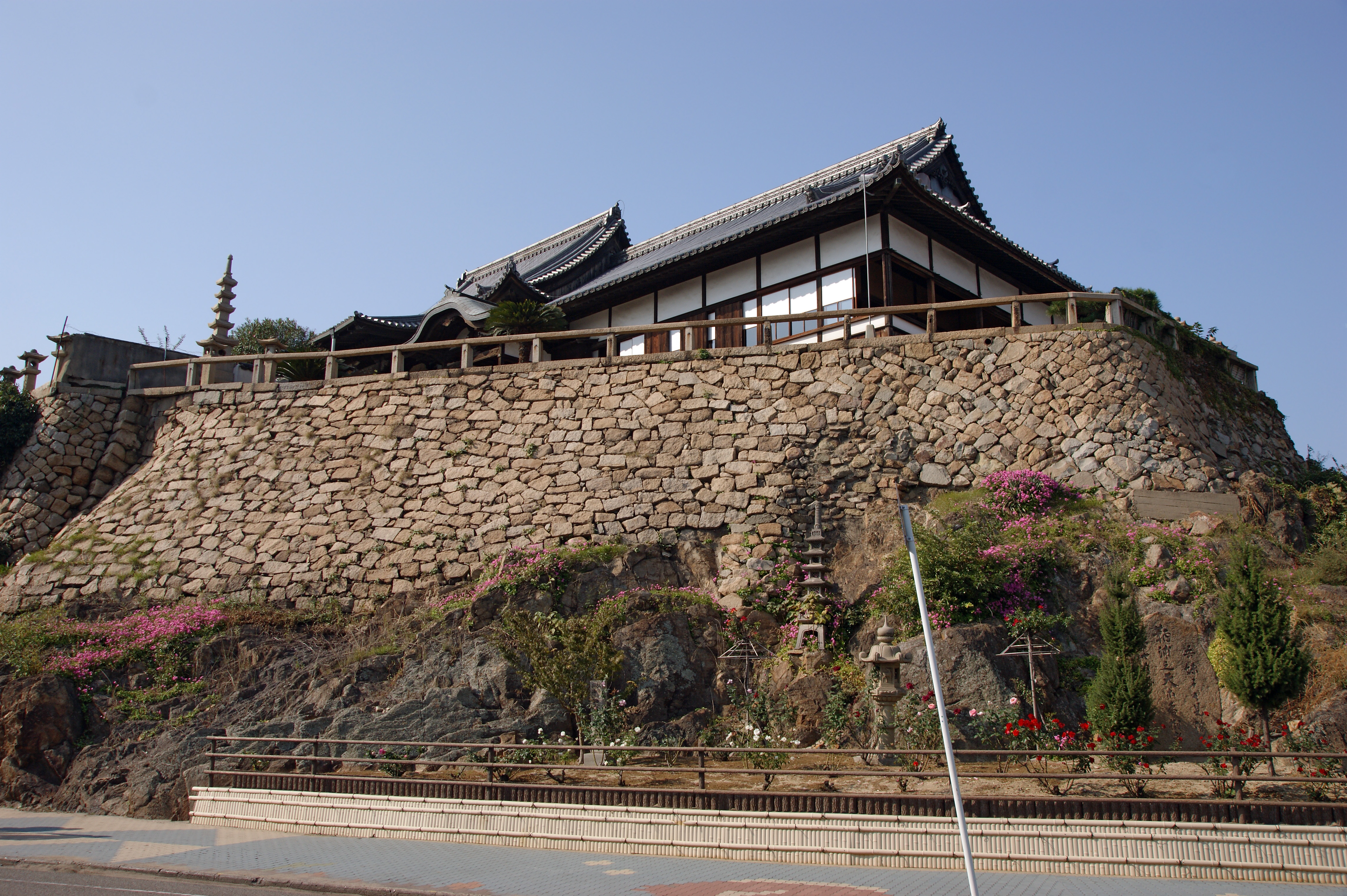 Fukuzenji, Fukuyama, Hiroshima Prefecture, Japan